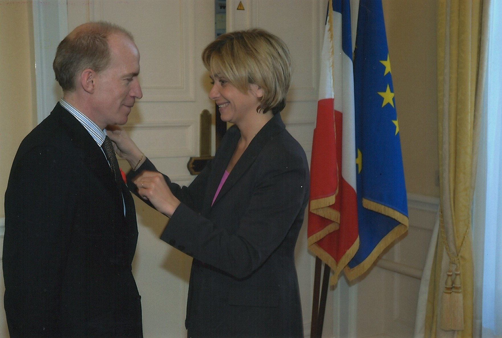 Philippe Berterottière is awarded the rank of Chevalier (Knight) of the Order of Merit from Valérie Pécresse, Minister of Higher Education and Research, at a ceremony held on the 24 May 2010 at the Ministry of Higher Education in Paris.